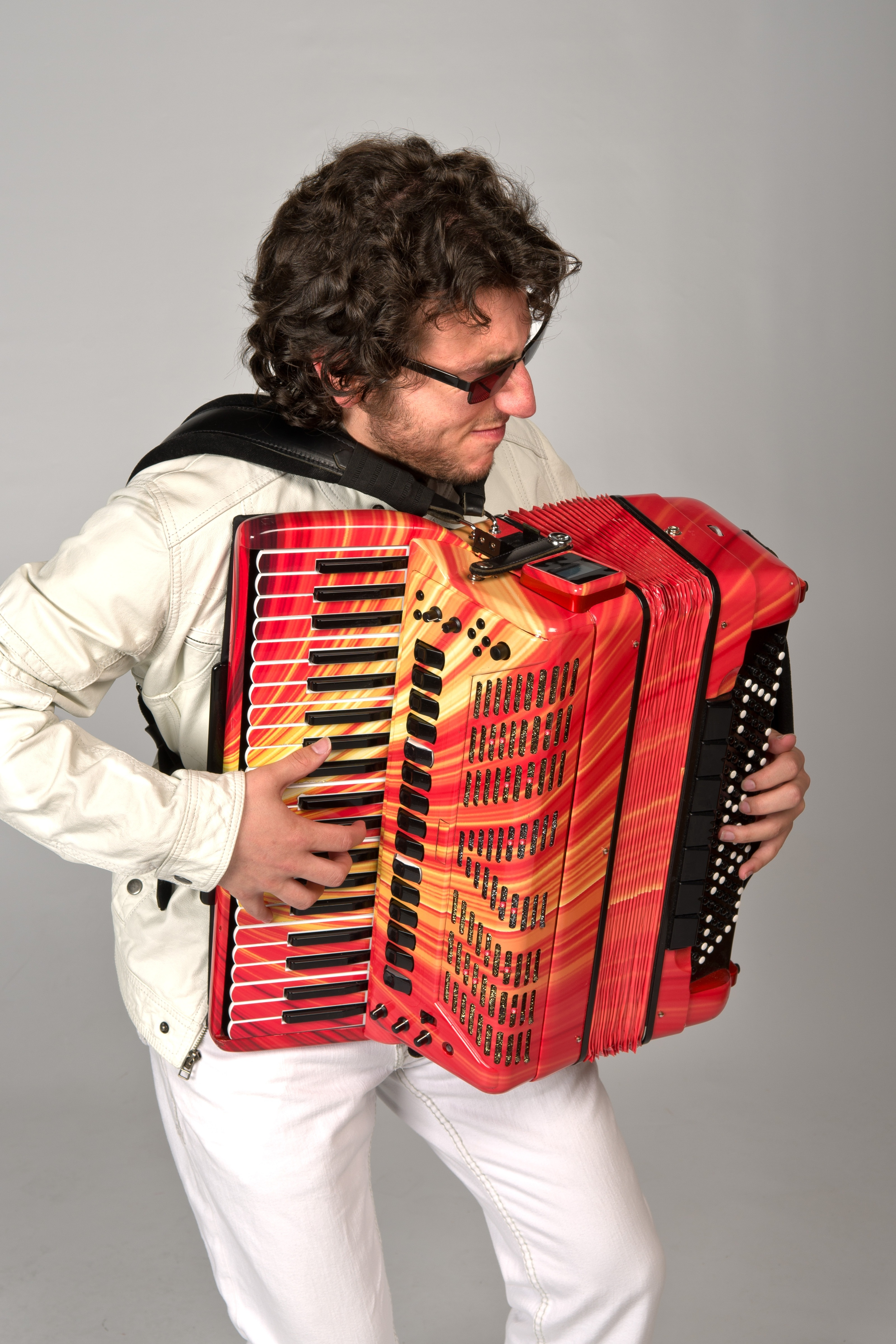 Photograph of Cory Pesaturo with accordian